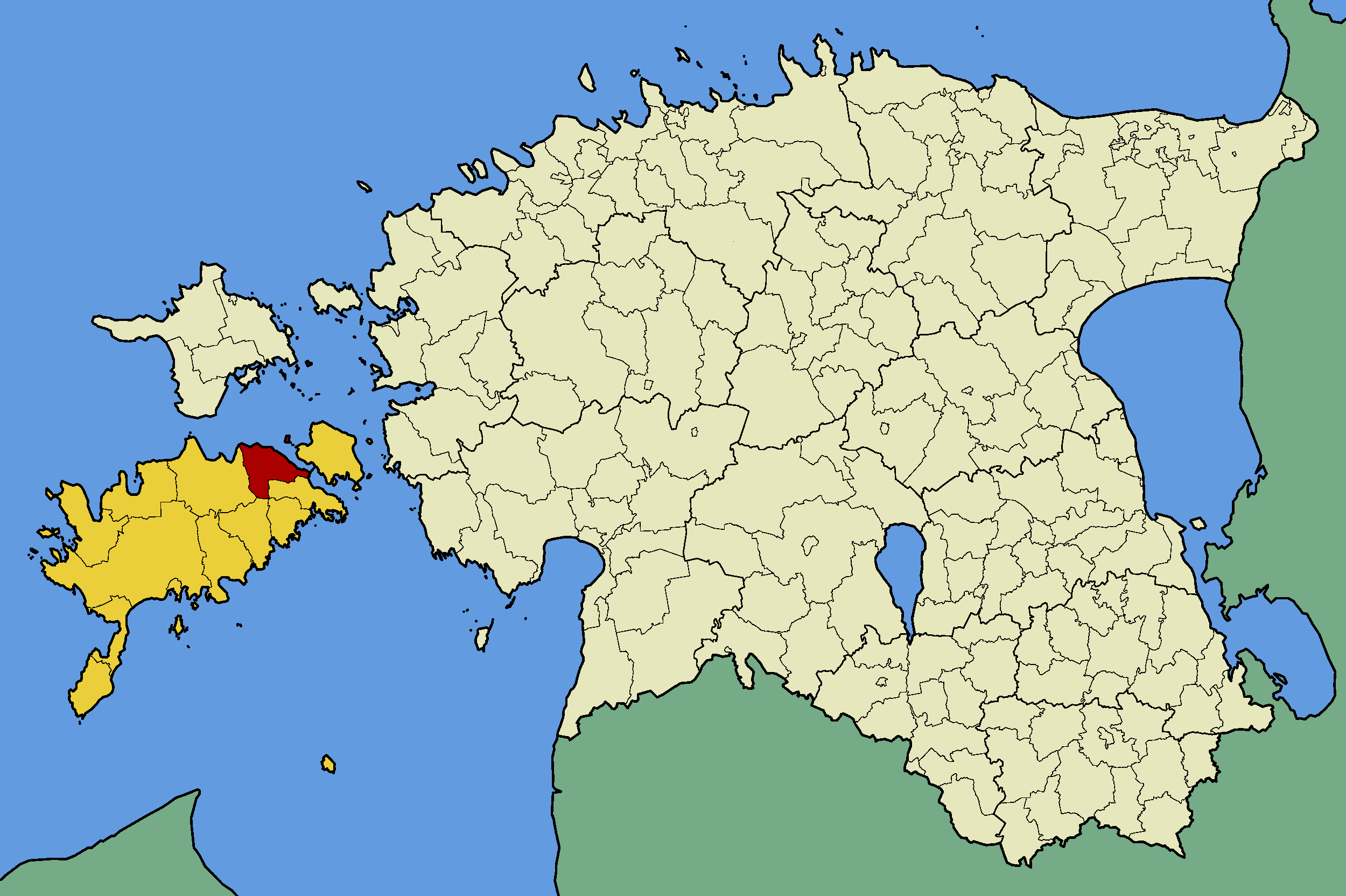 Map of Estonia with borders of municipalities (parishes). Saare county and Orissaare municipality emphasized.